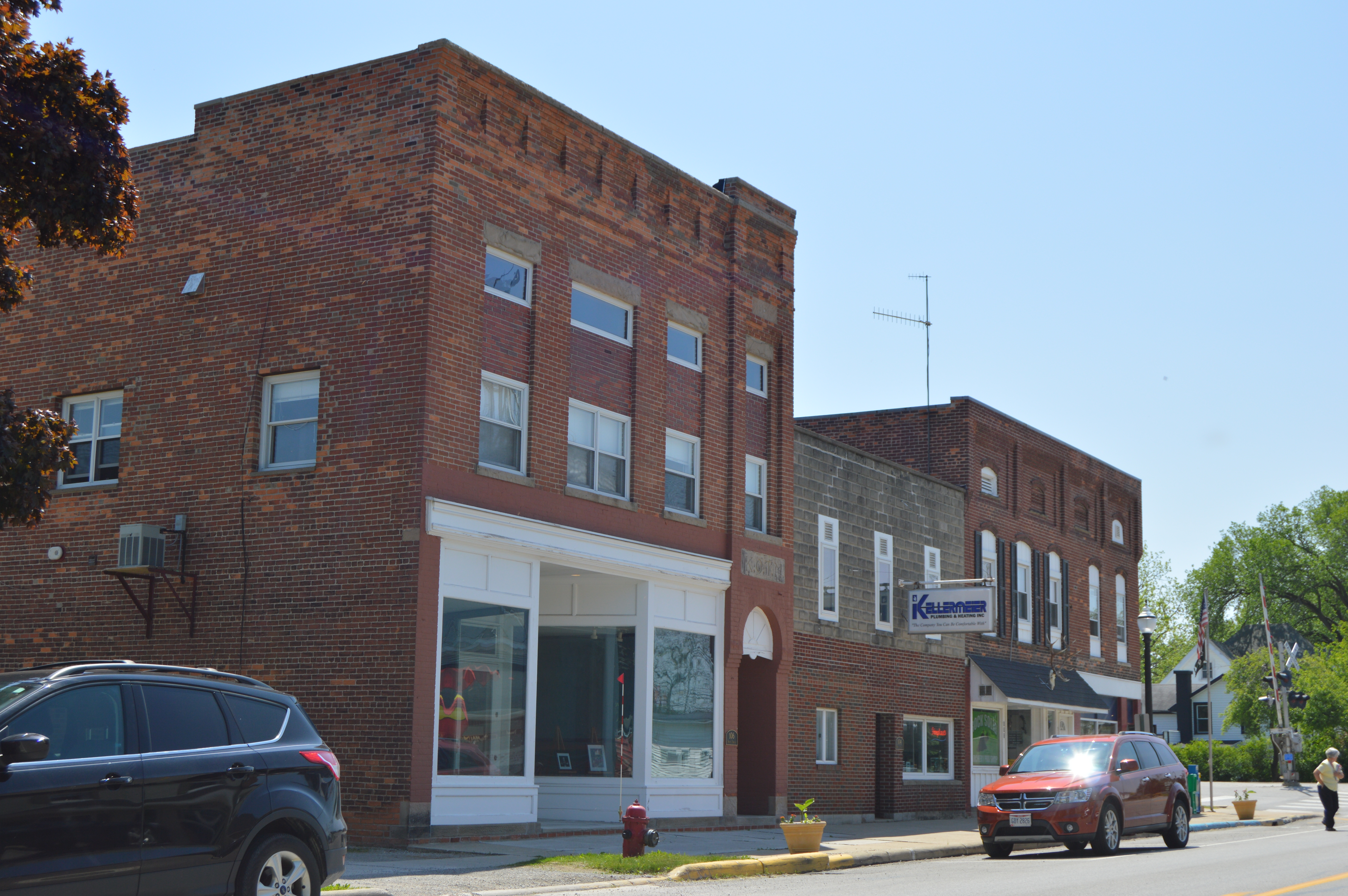 Buildings on the eastern side of Findlay Street (State Route 64) in central Haskins, Ohio, United States.